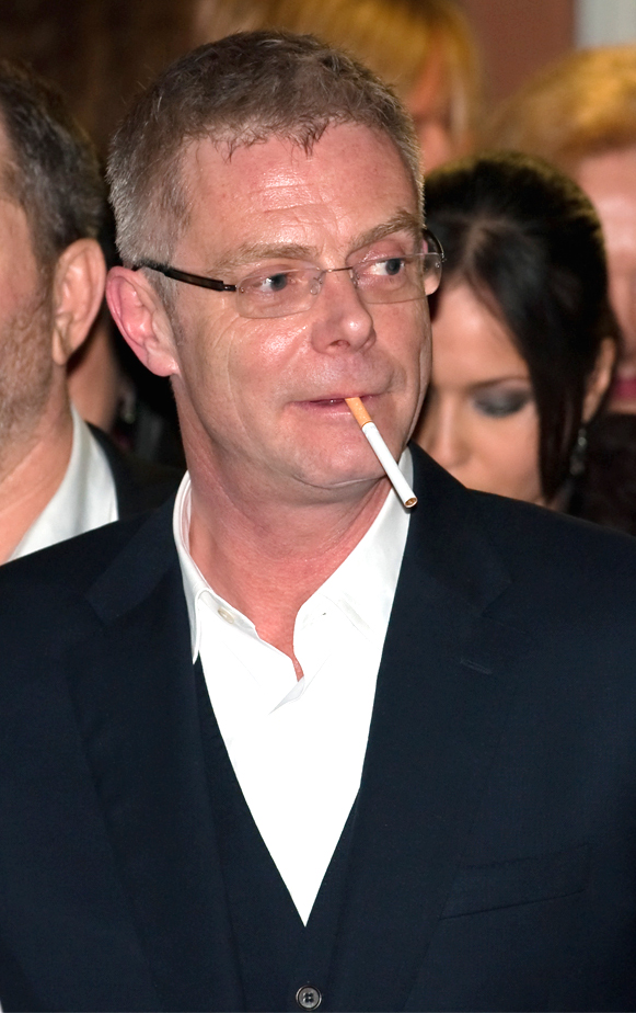 Stephen Daldry leaving the premiere of "The Reader" at the 59th Berlin International Film Festival